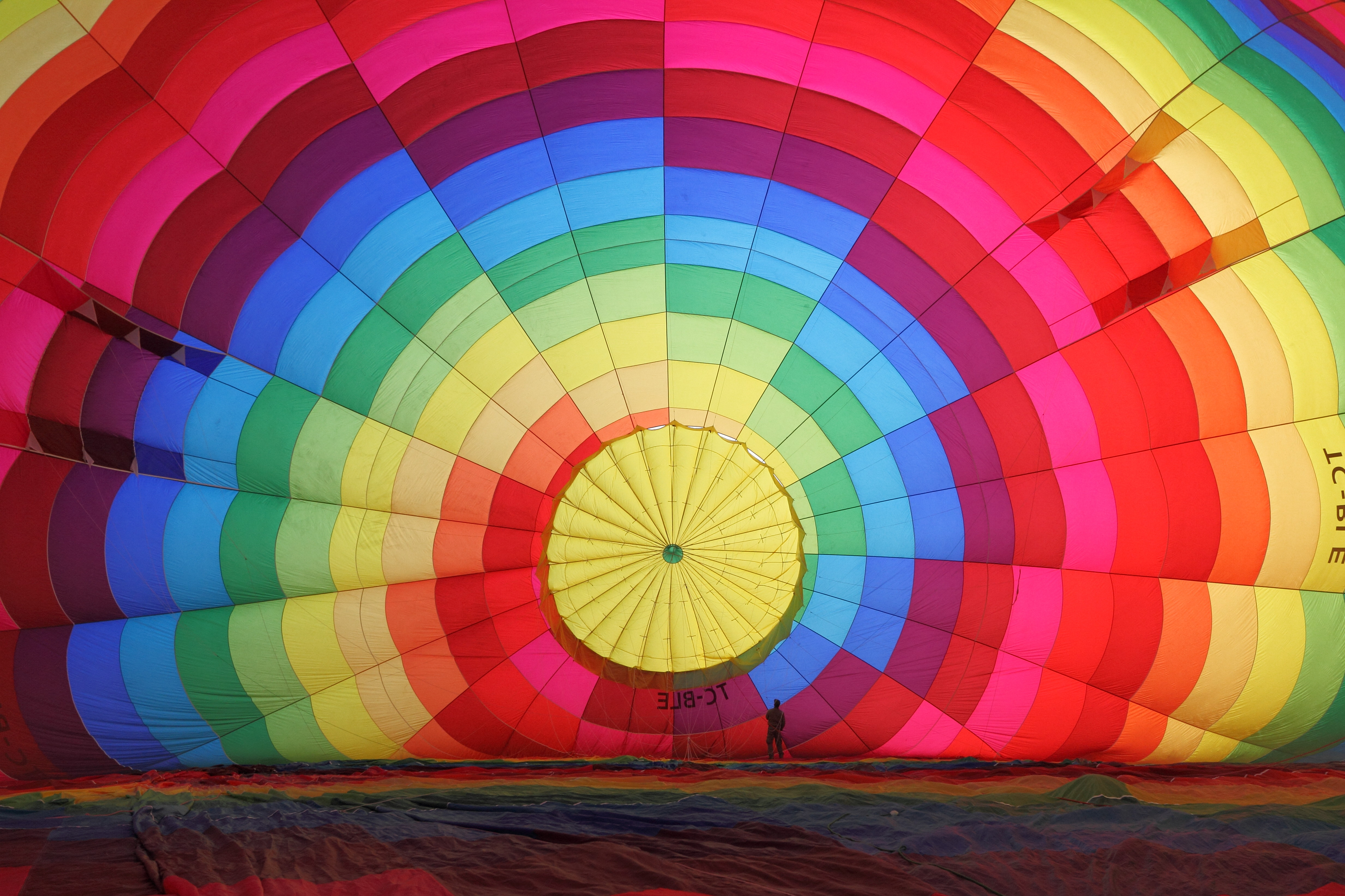 A hot air balloon, as seen from inside, being inflated before an air trip over Cappadocia, central Turkey.